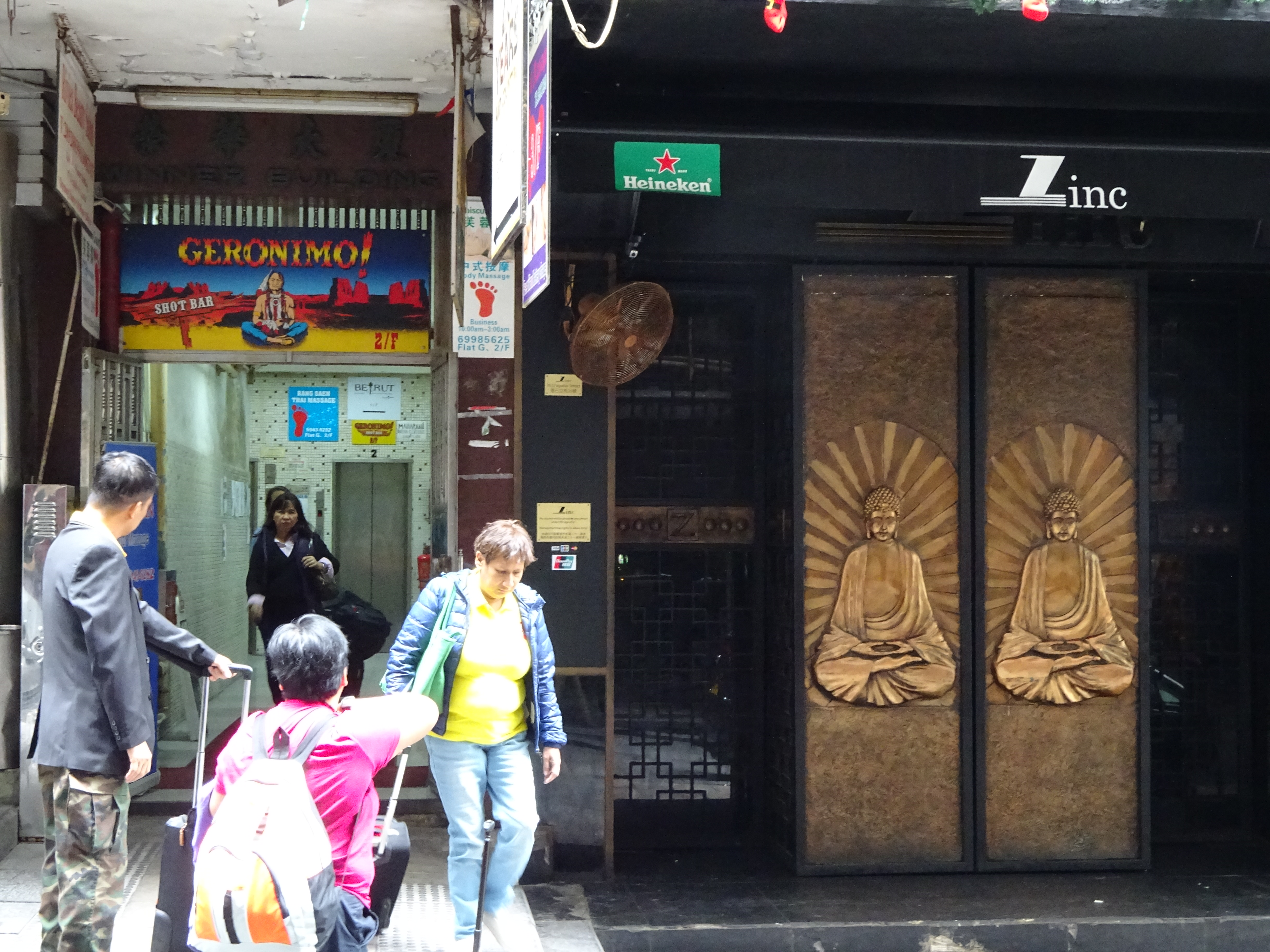 D'Aguilar Street, Lan Kwai Fong, Central, Hong Kong